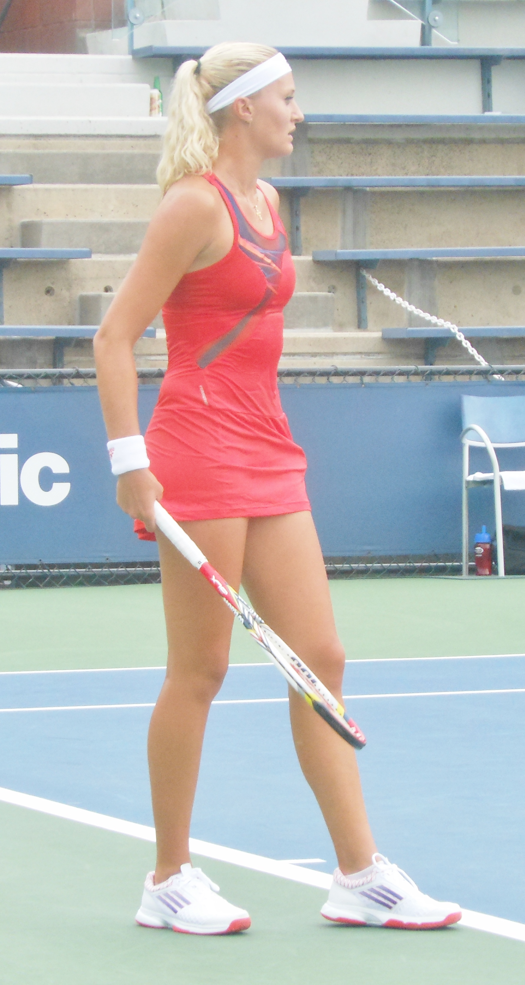 Kristina Mladenovic 2013 US Open